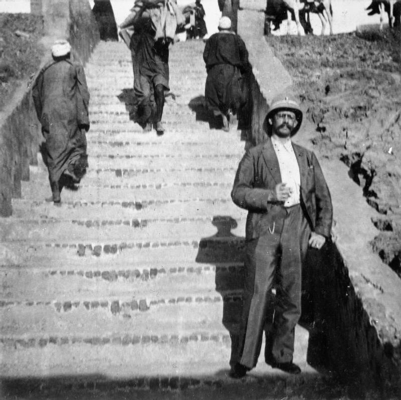 General Kitchener and the Anglo-egyptian Nile Campaign, 1898 The German Military AttachÃ�, Captain Adolf von Tiedemann (1865-1915), possibly at Aswan in Egypt. Tiedemann was an officer with Peters' Emin Pasha Expedition and served as an observer during the Dongola Expedition.